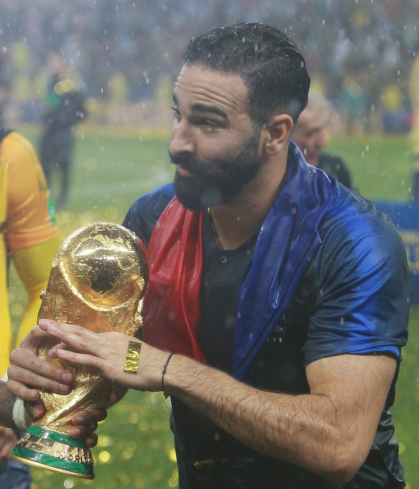 French footballer Adil Rami holding the FIFA World Cup Trophy after the tournament's final match on 15 July 2018.